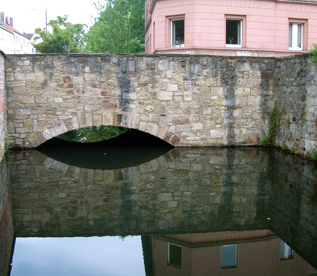 Bridge at Neustadtmuehle in Braunschweig